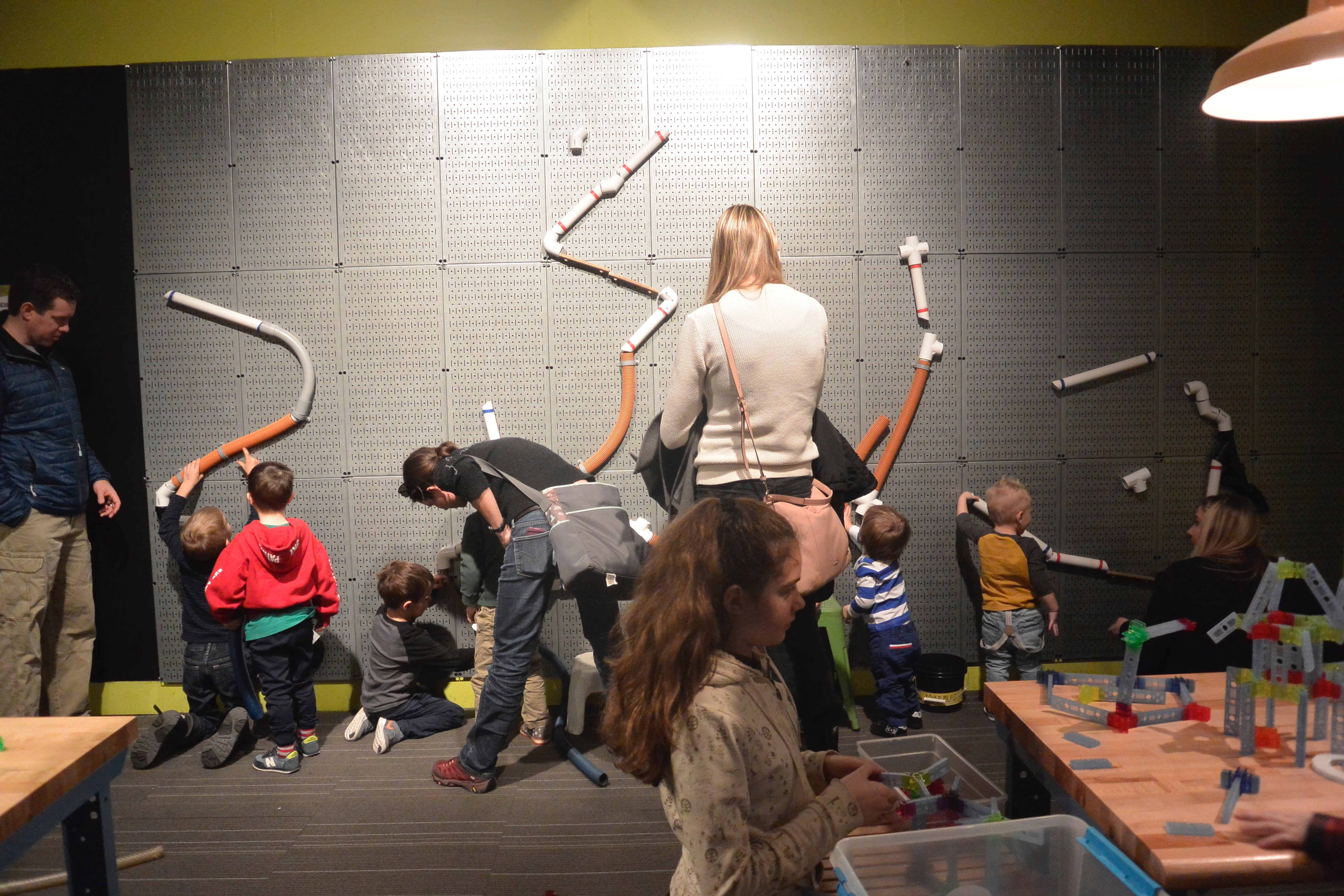 na